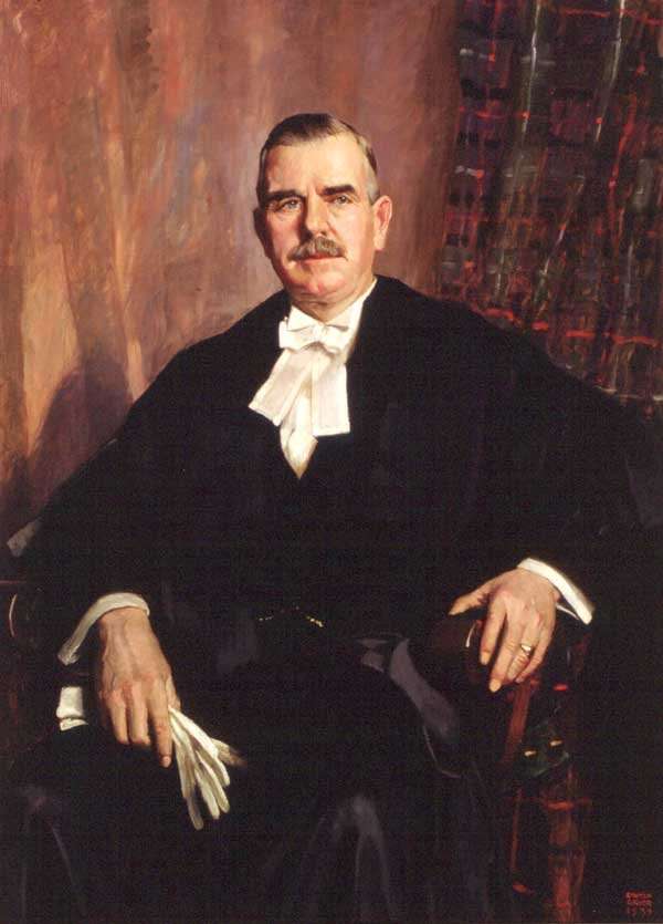 Speaker of the Ontario Legislature, 1927-29